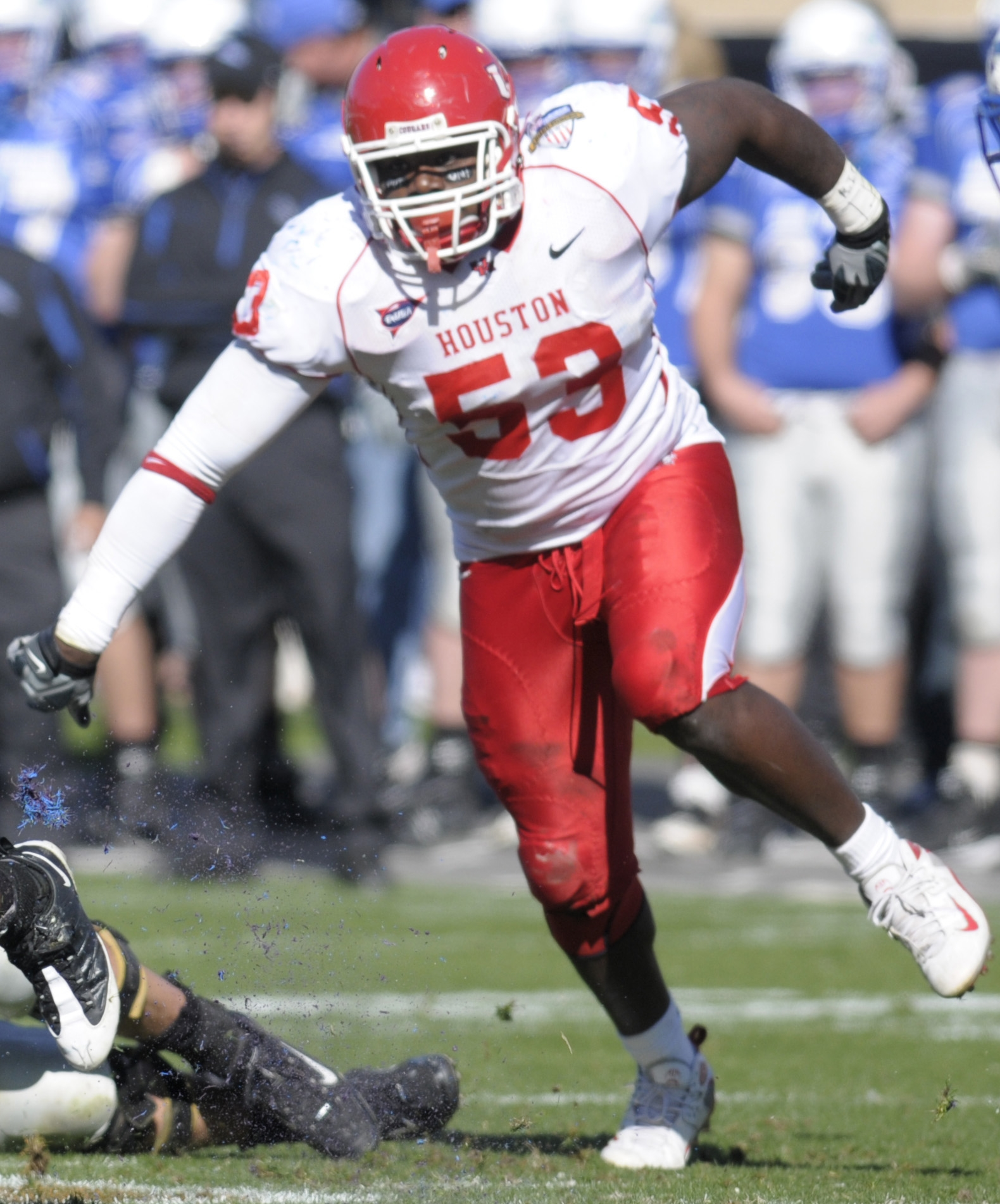 Under pressure, U.S. Air Force Academy quarterback Tim Jefferson looks to pitch the ball to a running back during the sixth annual Bell Helicoptor Armed Forces Bowl on Dec. 31. The Academy set a new Armed Forces Bowl game rushing yardage record, running 67 times for 243 yards, but fell short of beating the University of Houston Cougars, 34-28.